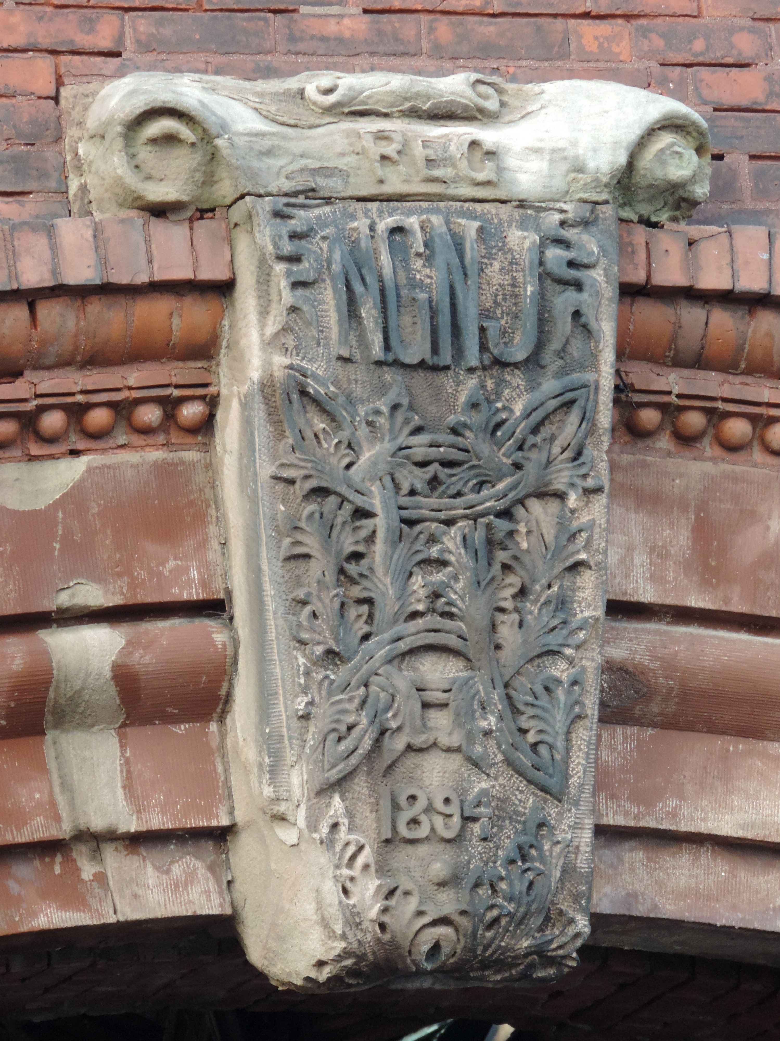 Looking north across Market Street at keystone